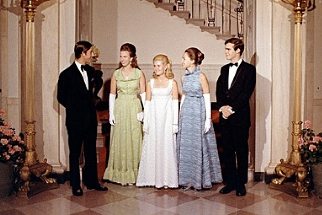 Prince Charles and Princess Anne with Tricia Nixon, Julie and David Eisenhower.